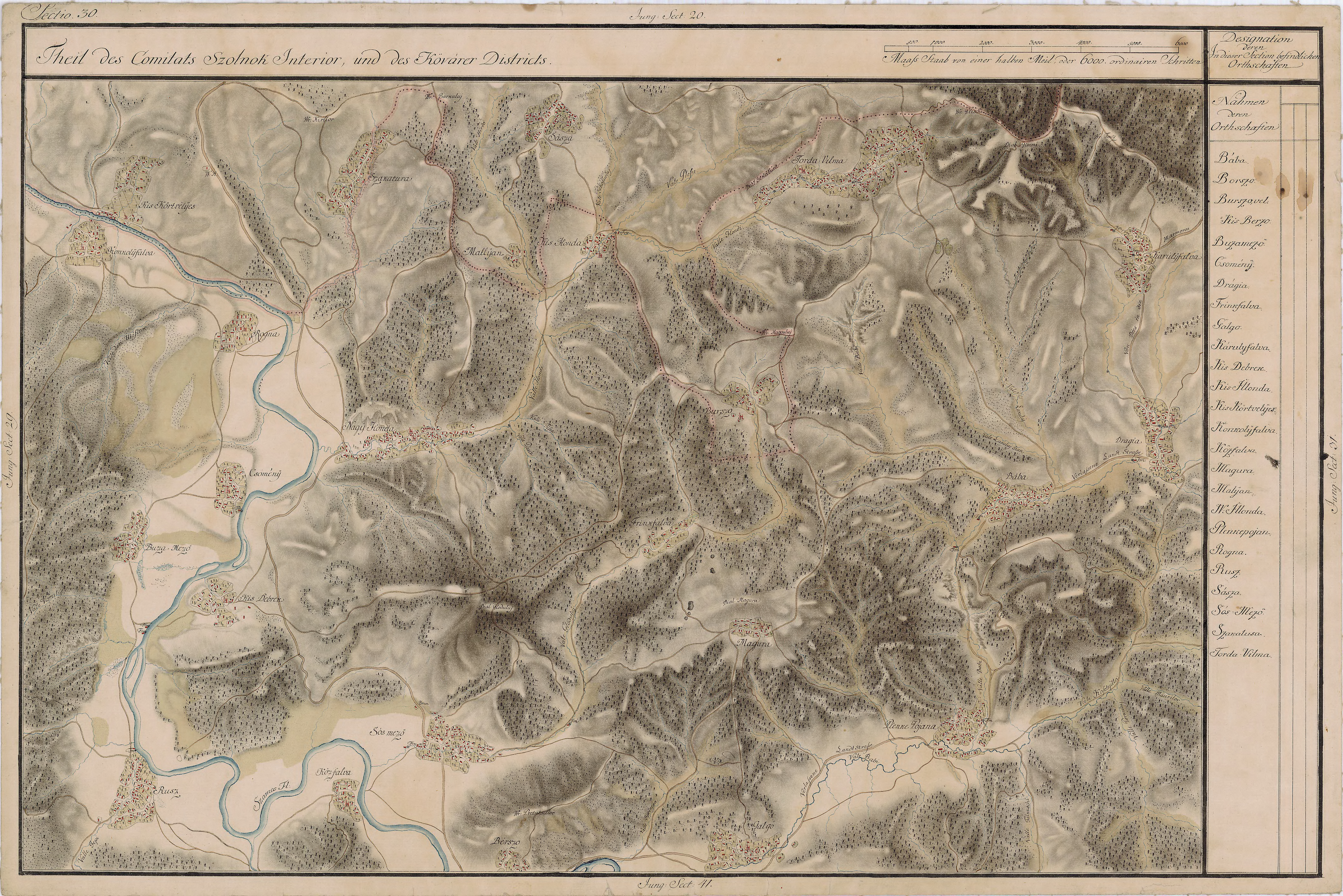 Grand Duchy of Transylvania, 1769-1773. Josephinische Landaufnahme pg.030